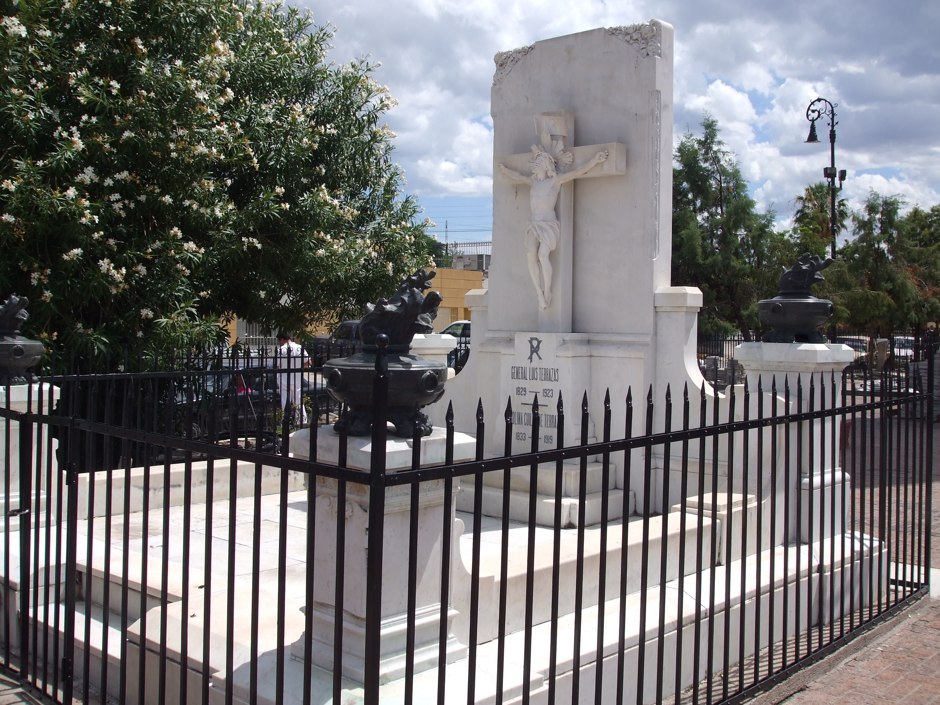 Tomb of Luis Terrazas, Chihuahua, Mexico